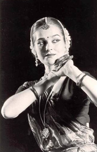 Véronique Azan, a french Kathak dancer